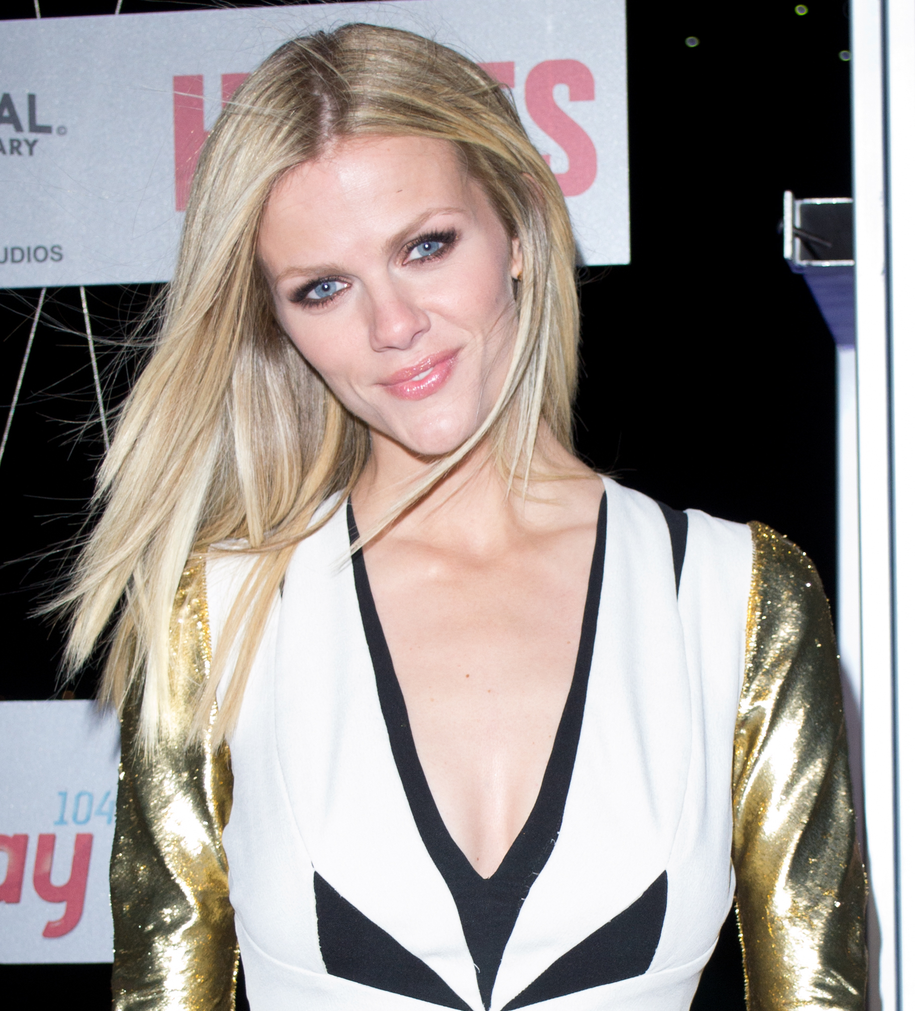 Brooklyn Decker at the Battleship Australian Premiere 2012.